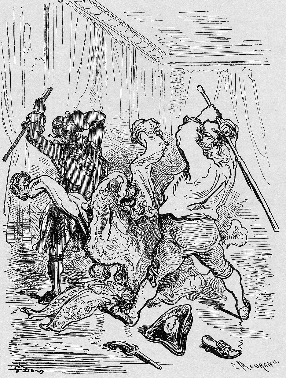 Paul Gustave Doré's 9th illustration for Baron von Münchhausen (1862)